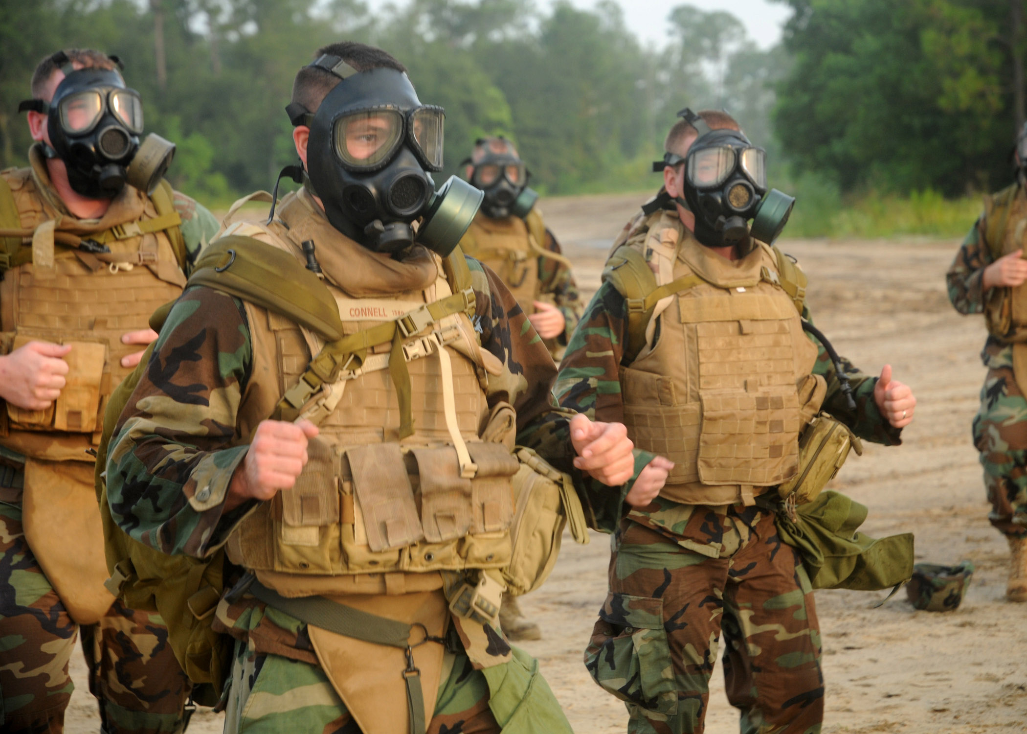 U.S. Navy sailors assigned to Naval Mobile Construction Battalion 74 run in place in full gear during a battalion readiness exercise at Naval Construction Battalion Center, Gulfport, Miss., on Aug. 6, 2010. The exercise was designed to build strength, confidence and endurance in order to prepare the battalion for future missions and deployments.